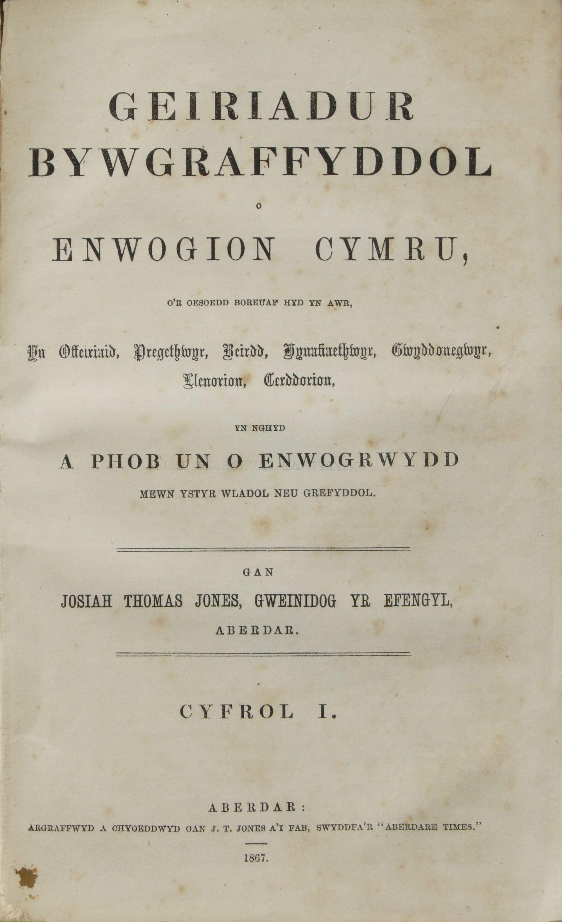 Title page of Volume I of Geiriadur Bywgraffyddol o Enwogion Cymru (Aberdare, 2 volumes, 1867), a Welsh-language biographical dictionary of eminent Welsh people compiled by Josiah Thomas Jones.